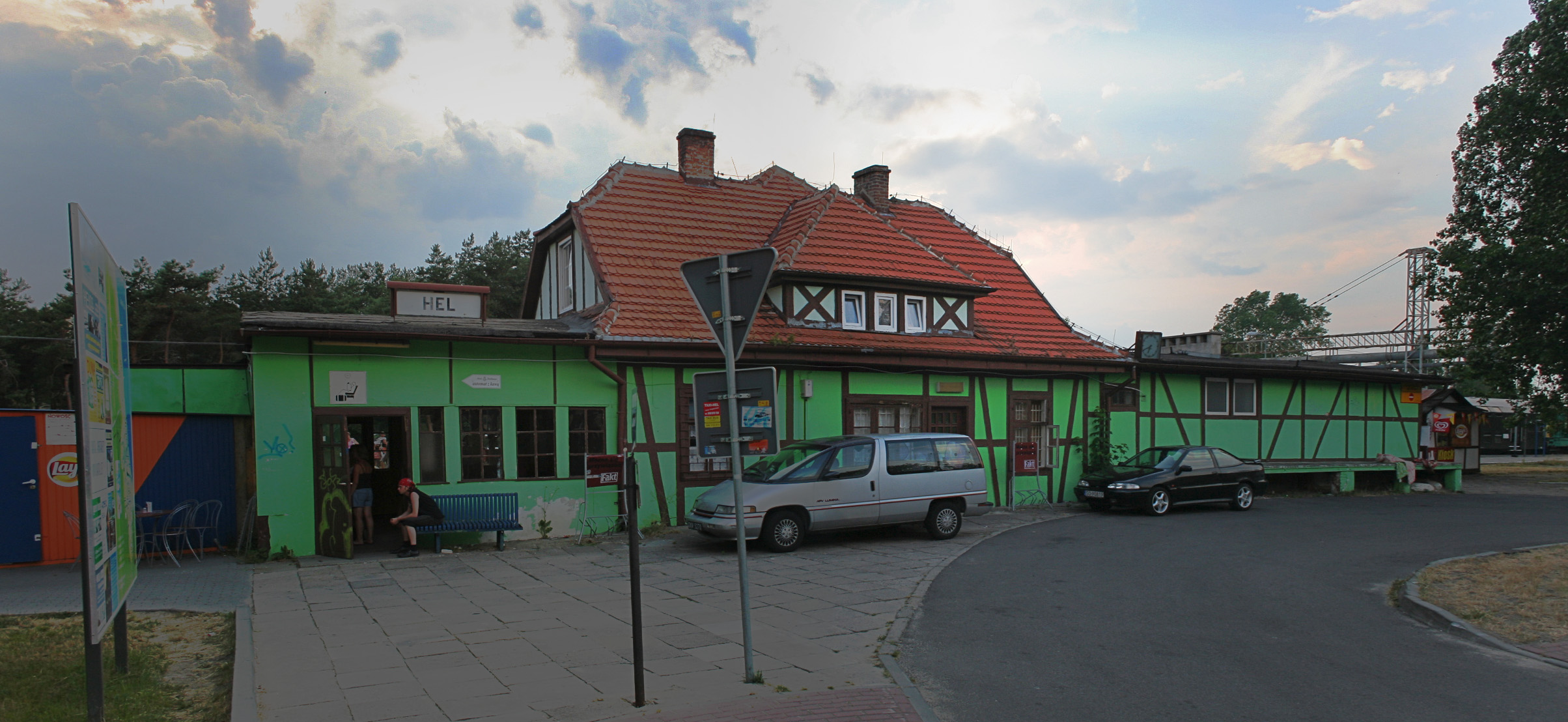 Train station in Hel.